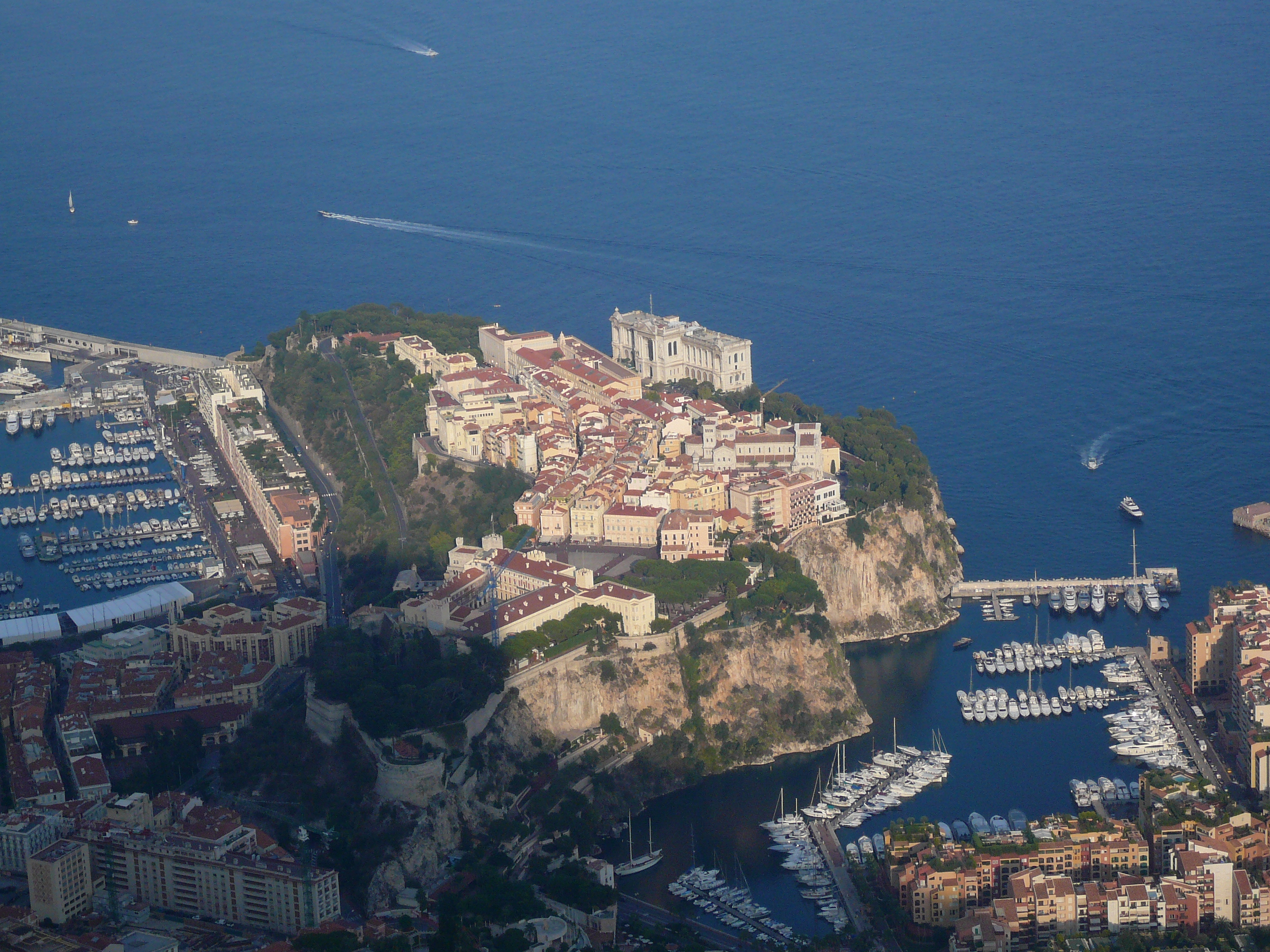 Monaco City as seen from Tête de Chien